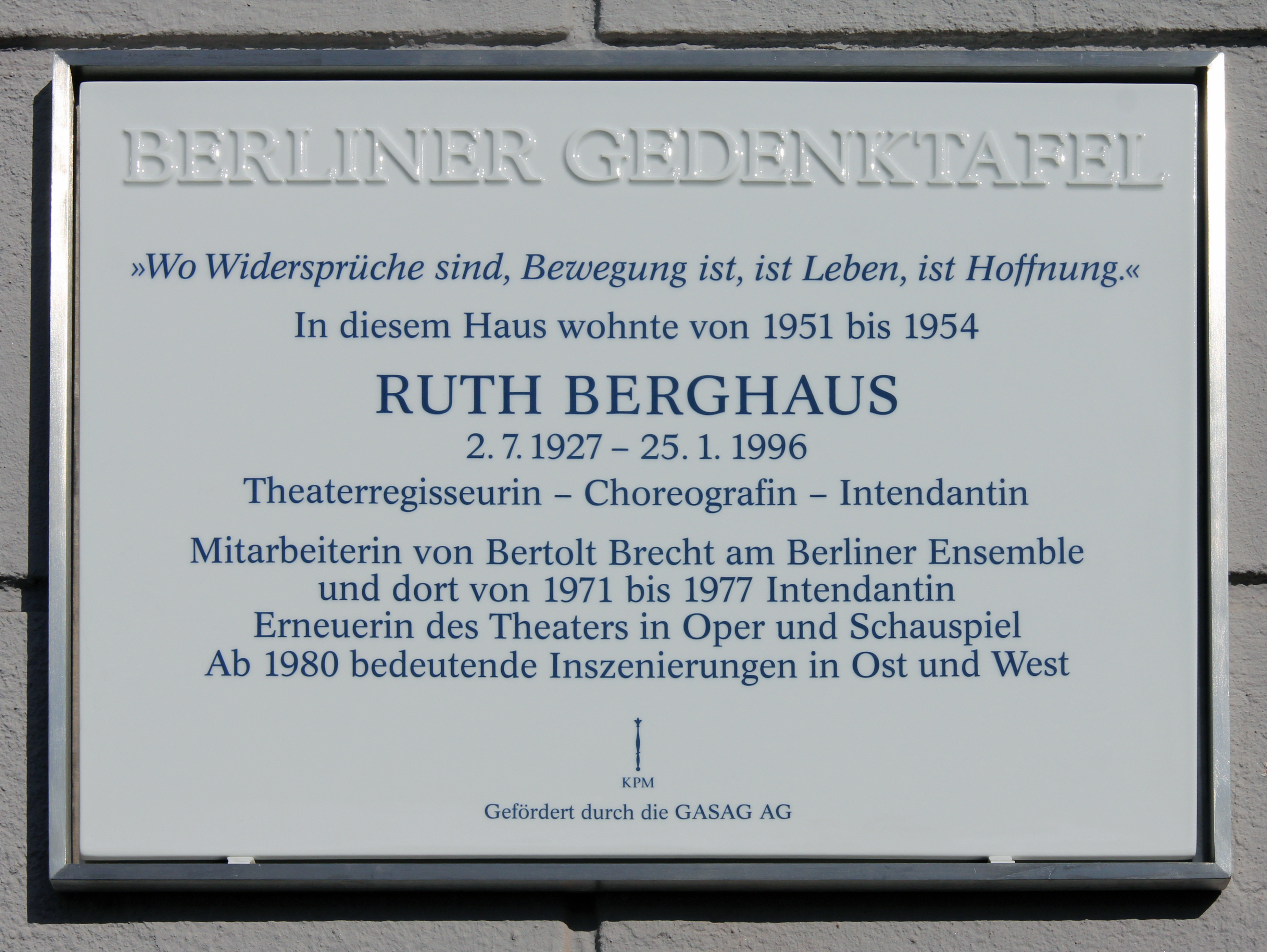 Berlin memorial plaque, Ruth Berghaus, Breite Straße 7, Berlin-Pankow, Germany